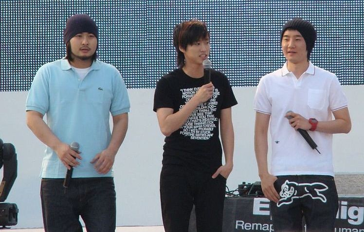 Epik High, 2007